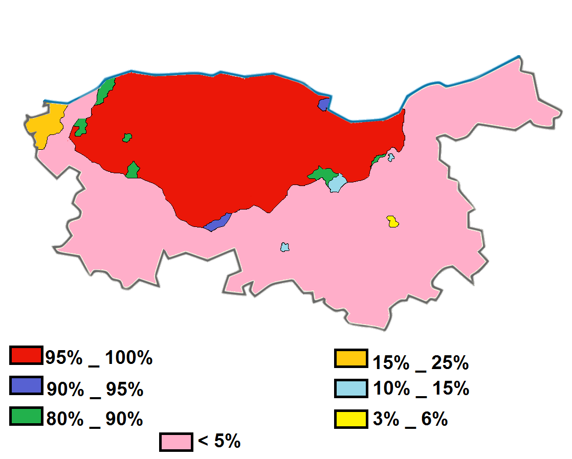 Kabyle language percent speakers